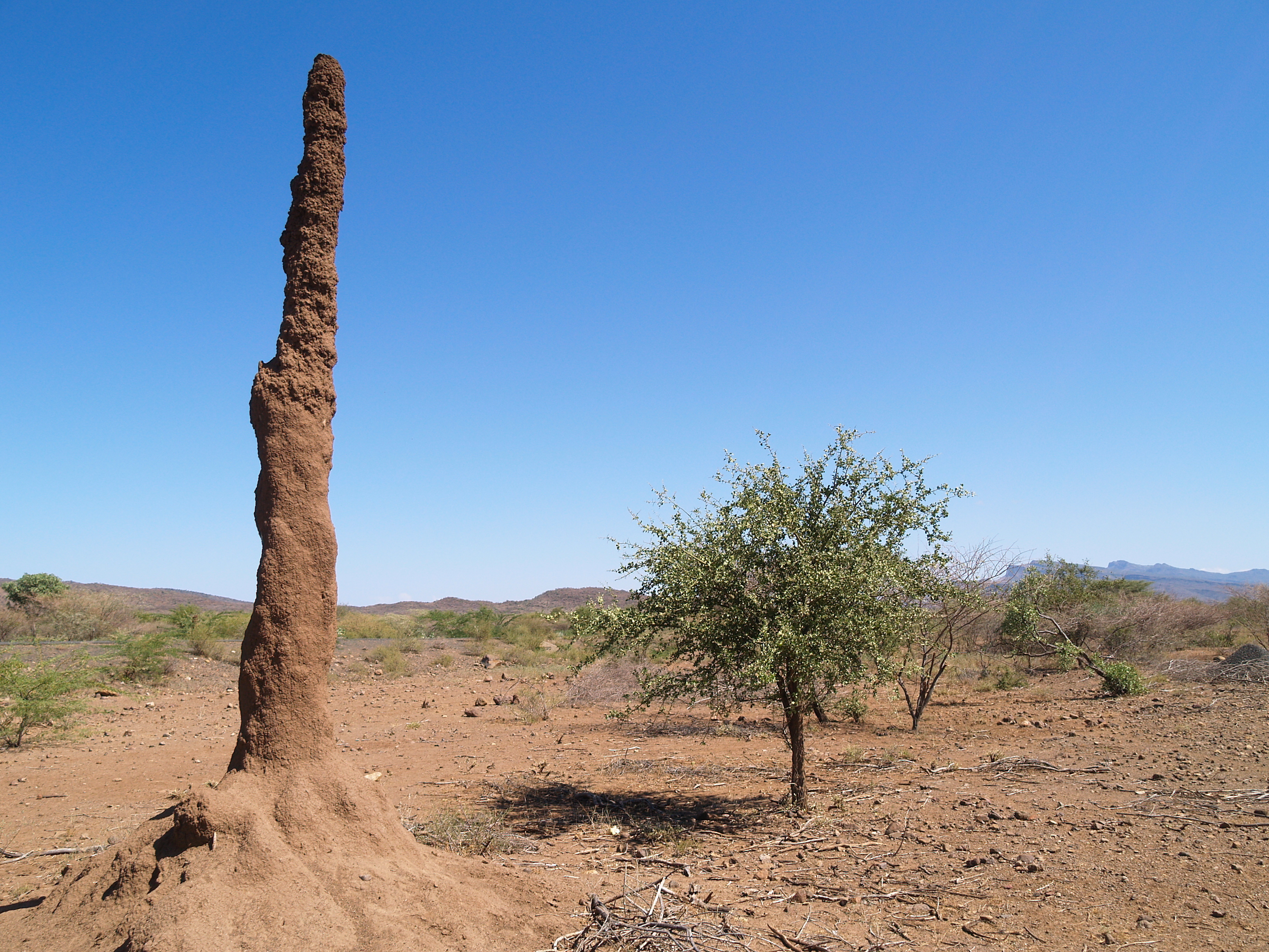 Termite mound 3 meters tall near Lokichiggio, Kenia